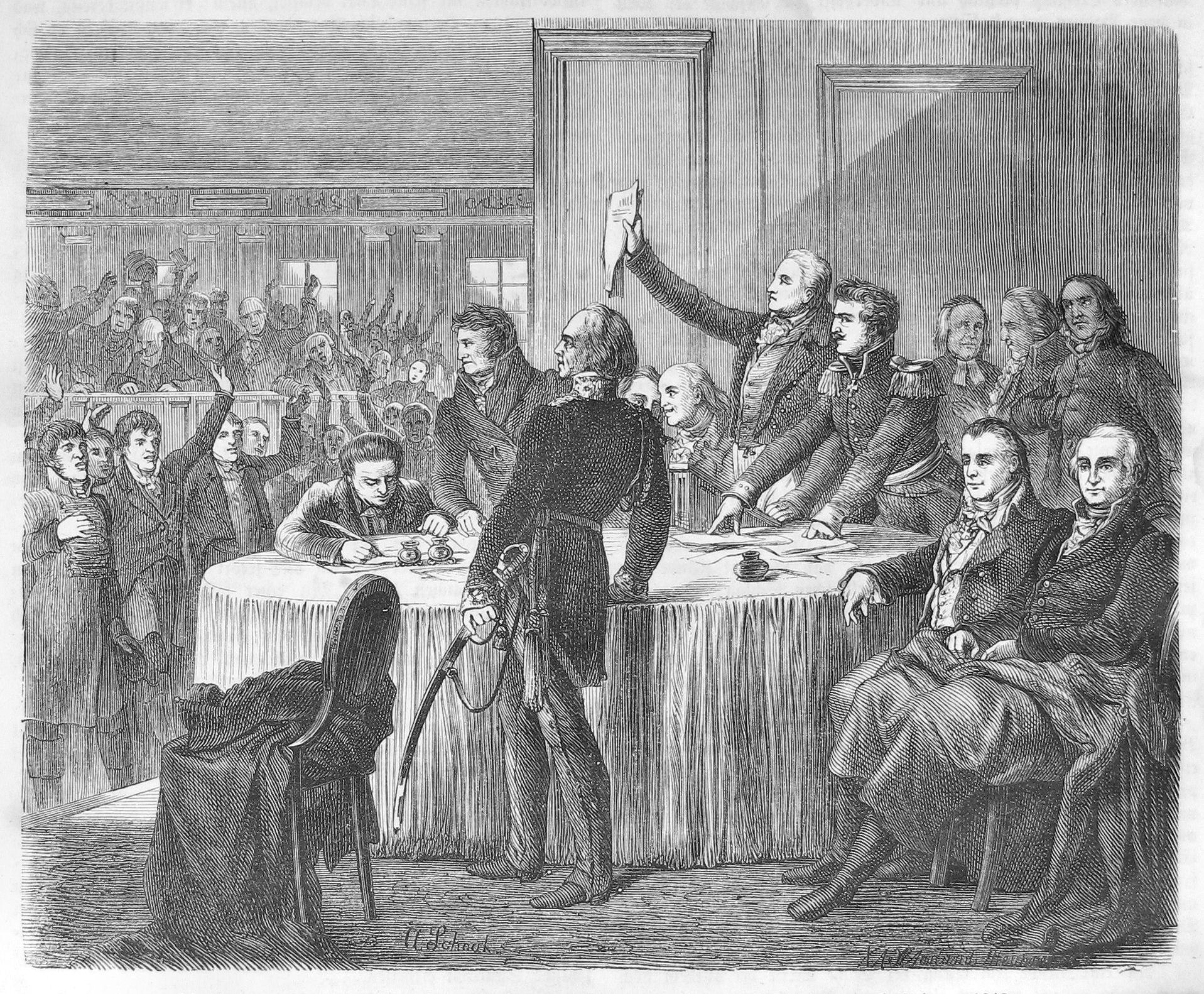 caption: "Die Einrichtung der preußischen Landwehr in der Ständeversammlung zu Königsberg am 5. Februar 1812."